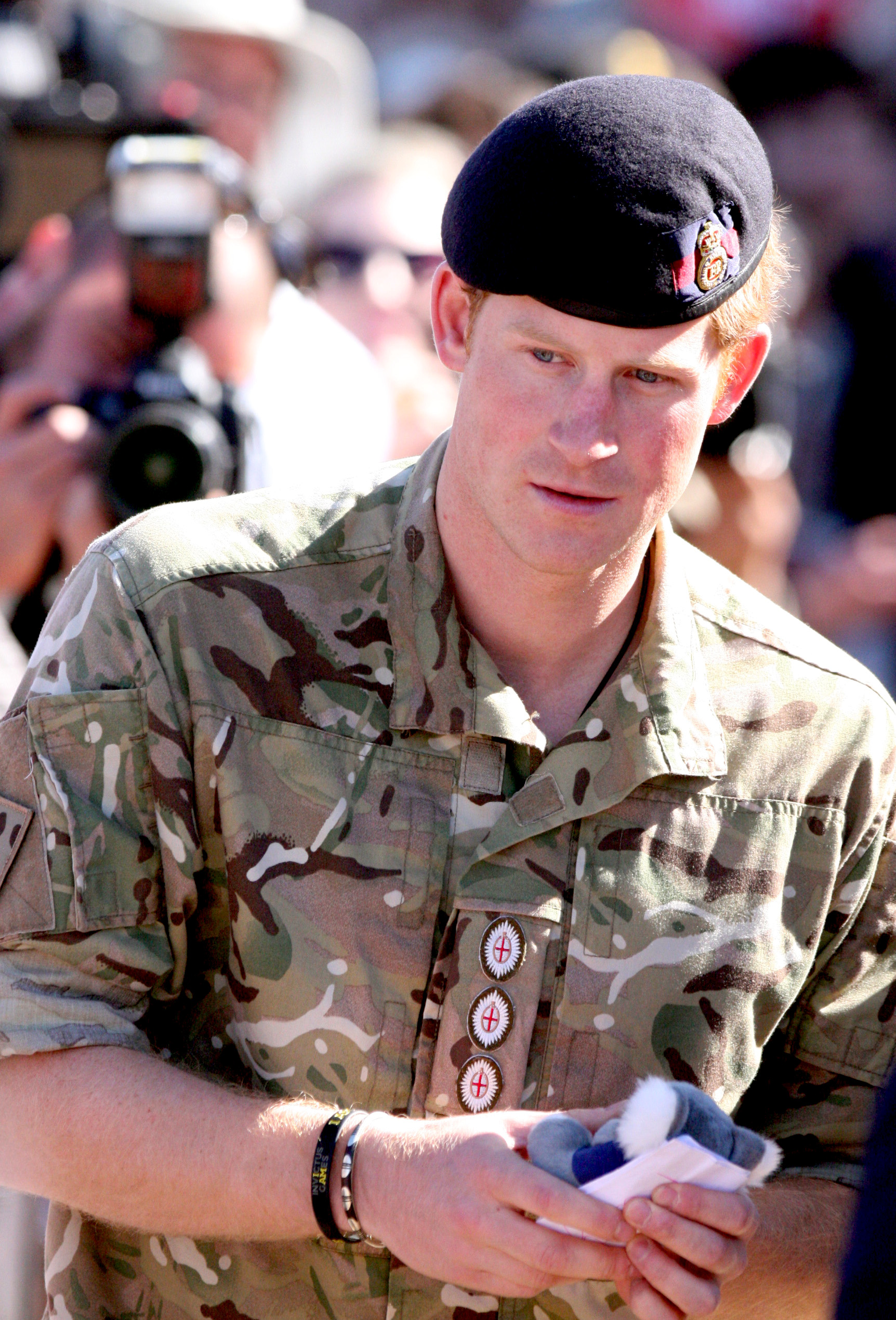 Prince Harry has met members of the public and the New South Wales Premier Mike Baird